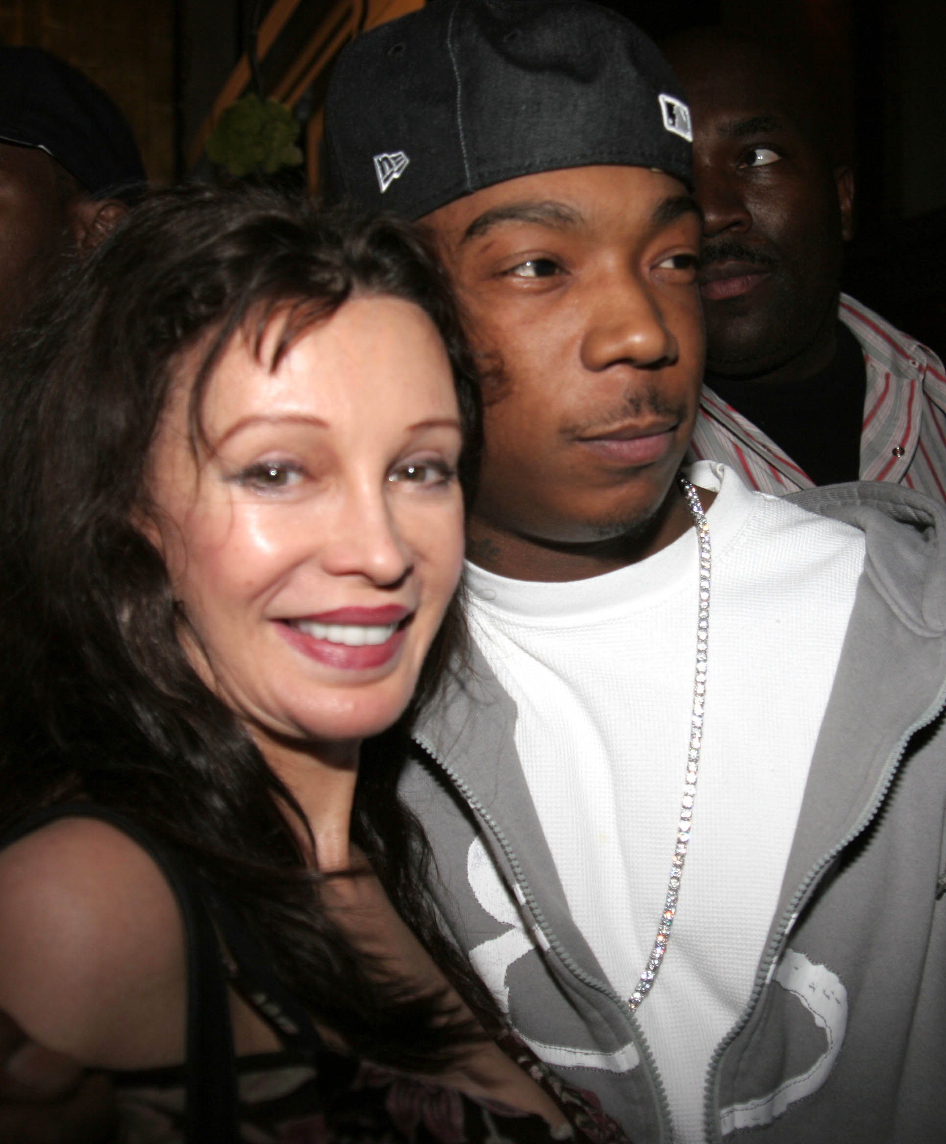 Jaid Barrymore and Ja Rule in February 2005.